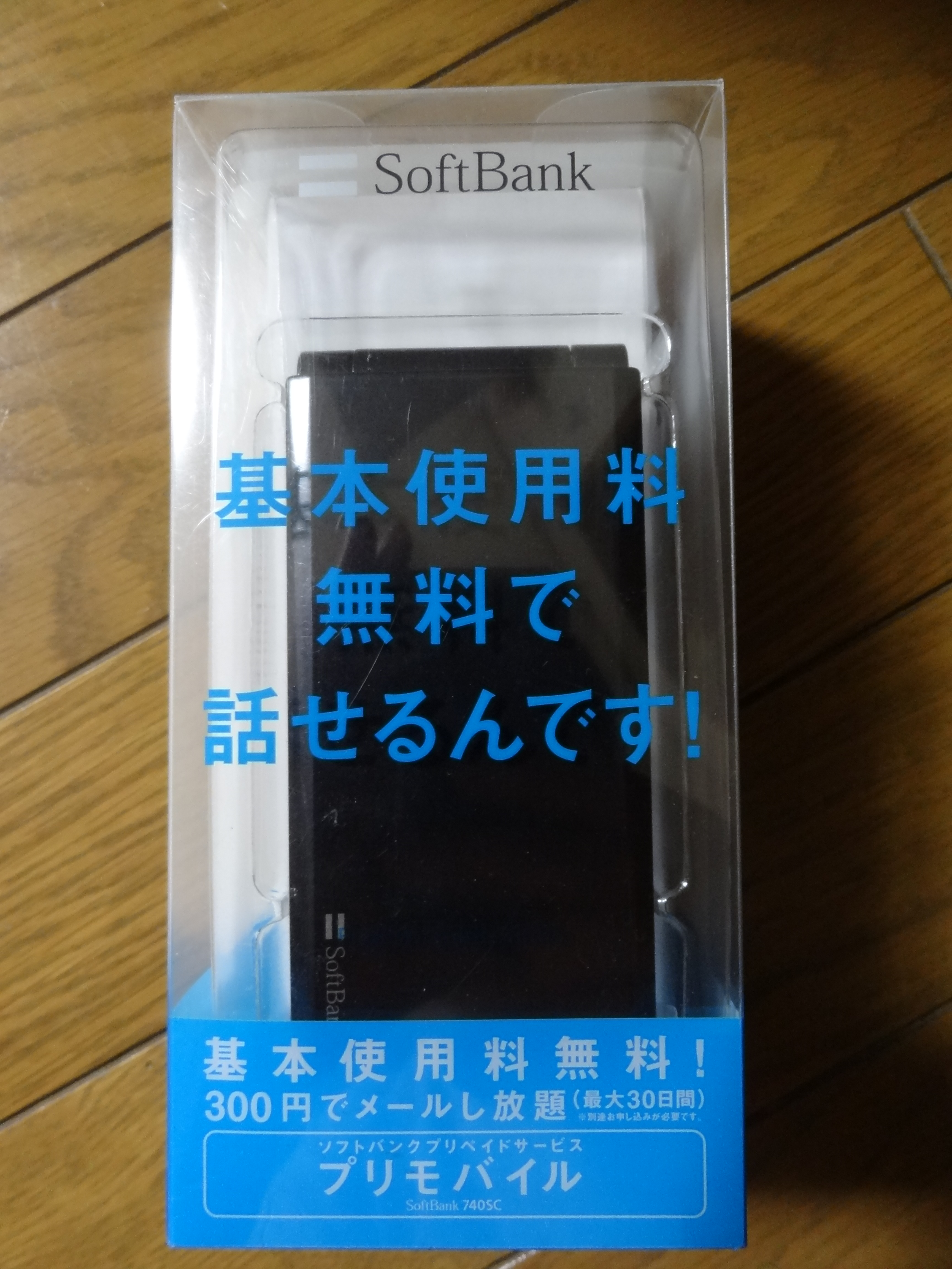 SoftBank 740SC Premobile Set.